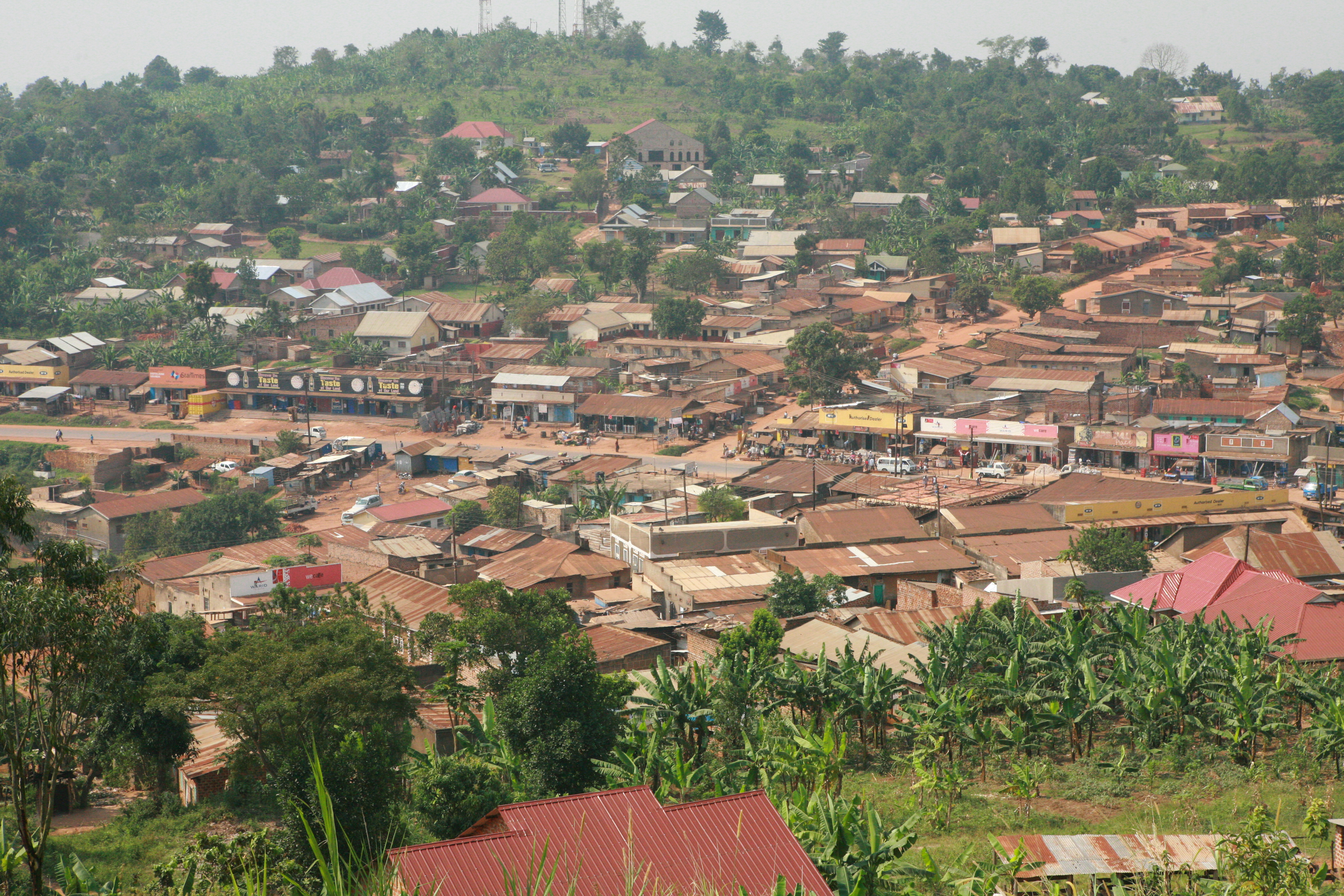 Matugga town in Uganda